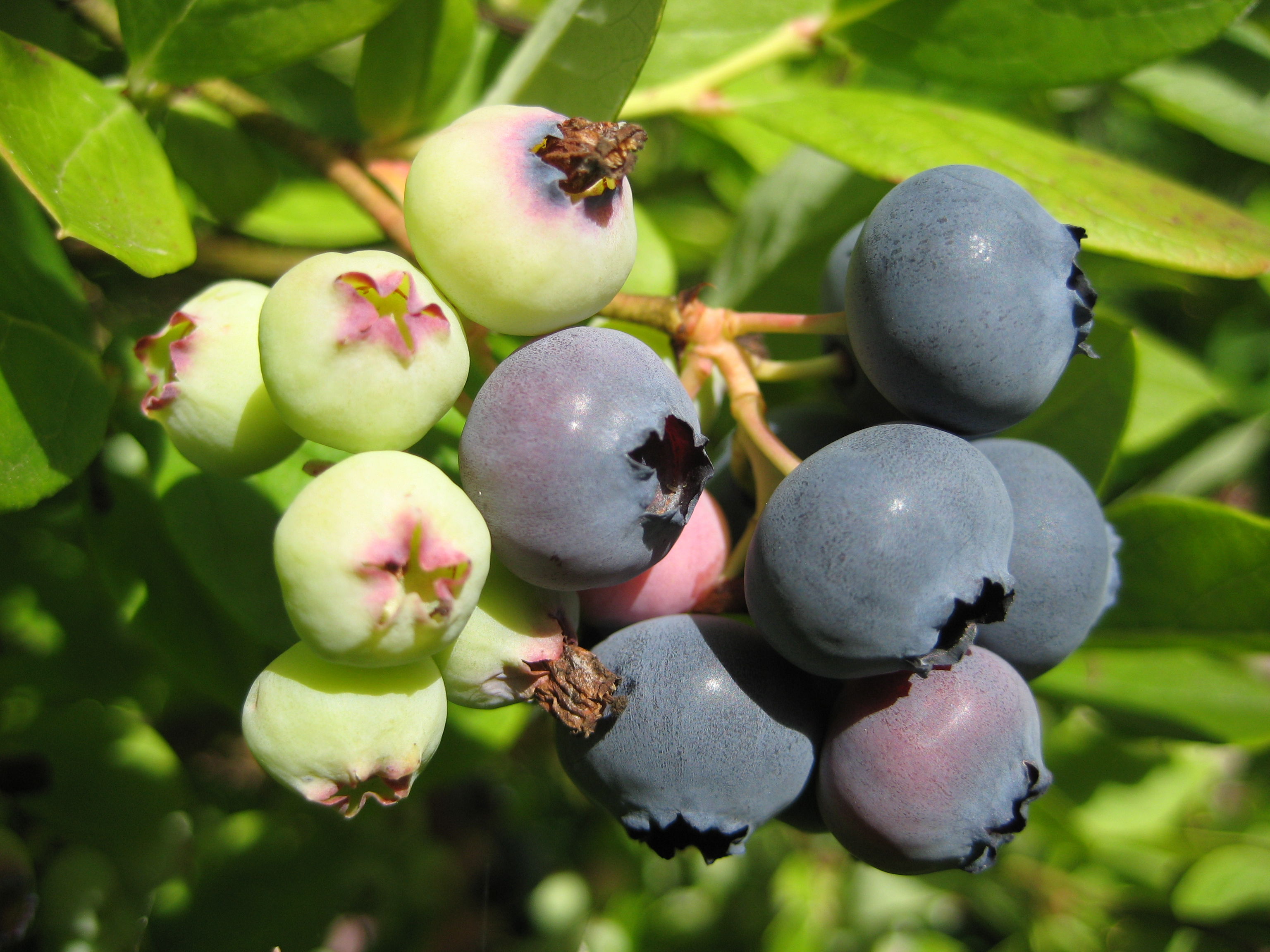 Northern highbush blueberrys